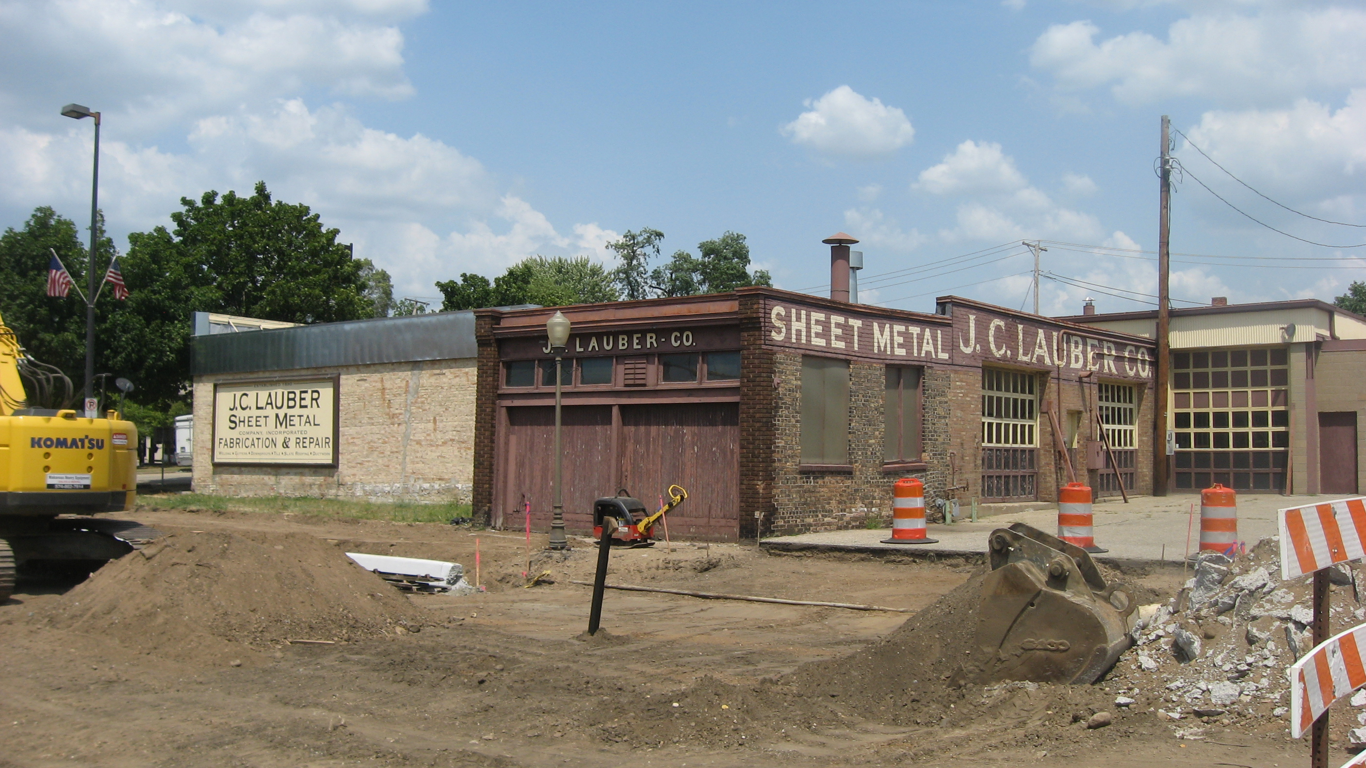 Western side and rear of the W.N. Bergan-J.C. Lauber Co. Building, located at 502-504 E. LaSalle Avenue in South Bend, Indiana, United States. Built in 1882, it is listed on the National Register of Historic Places.